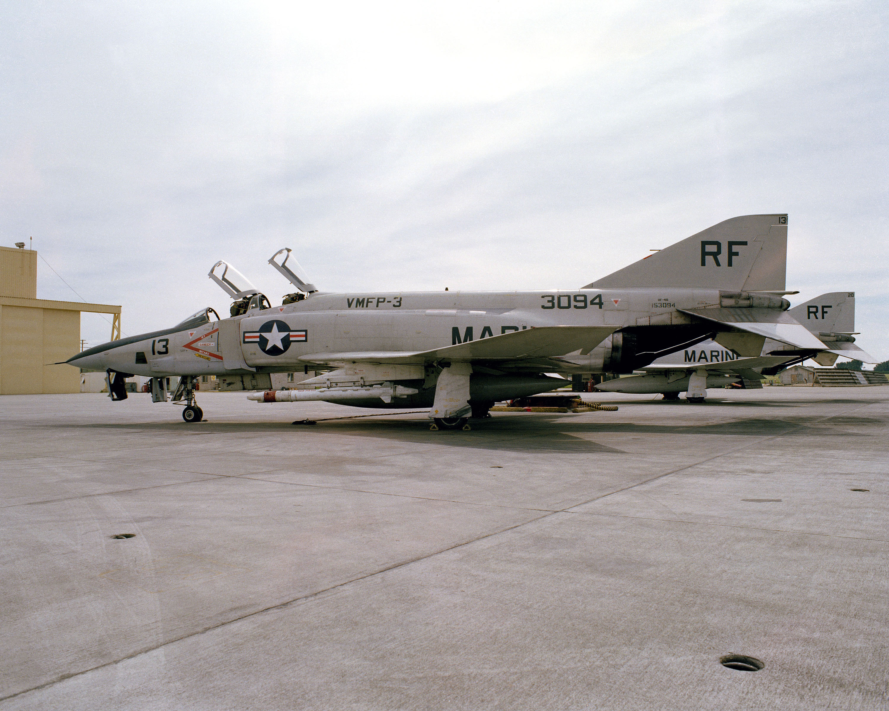 An U.S. Marine Corps McDonnell RF-4B-24-MC Phantom II aircraft (BuNo 153094) on the flight line of Marine Corps Air Station El Toro, California (USA), on 4 April 1978. The aircraft was assigned to Marine photo reconnaissance squadron VMFP-3 Eyes of the Corps and was finally retired to the AMARC as 8F0335 on 19 July 1989.